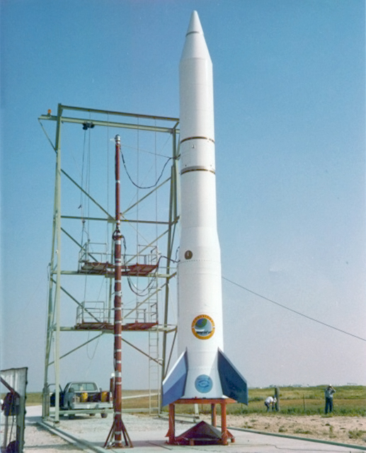 The first commercial rocket launch. The Conestega I out of Matagorda Island. Texas, USA.